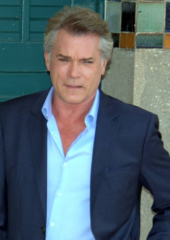 Ray Liotta at the Deauville Film Festival